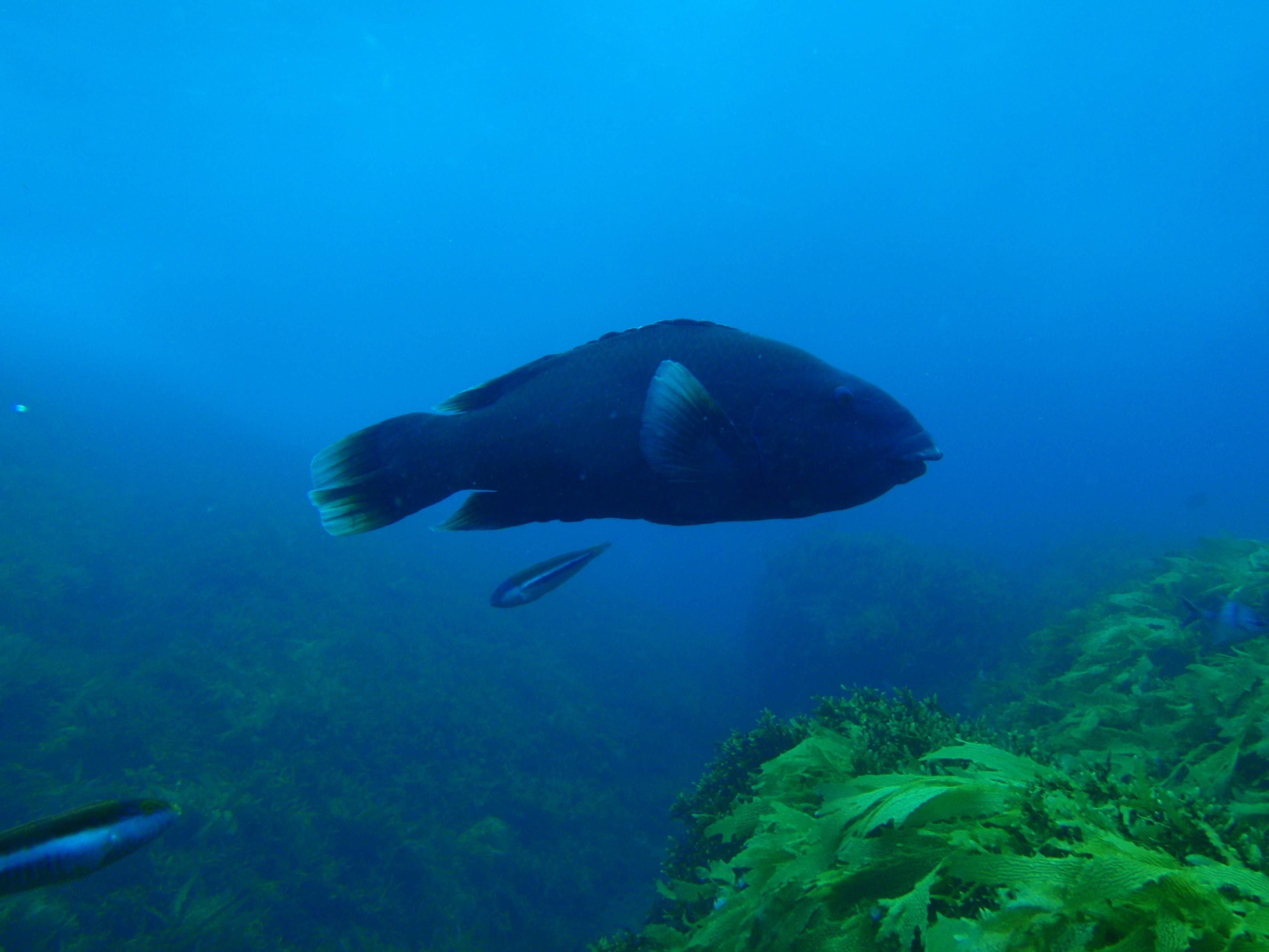 Western blue groper m Achoerodus gouldii at North Cove, Bald Island, Western Australia